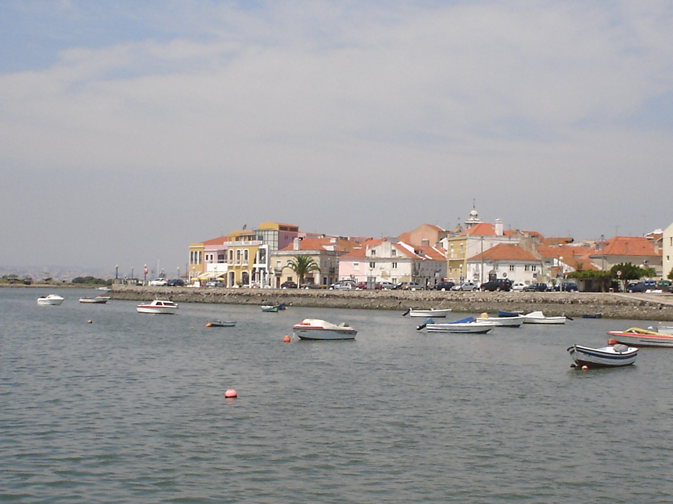 Seixal bay